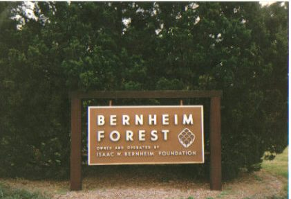 Picture taken by myself (Scott Skinner) and is public domain